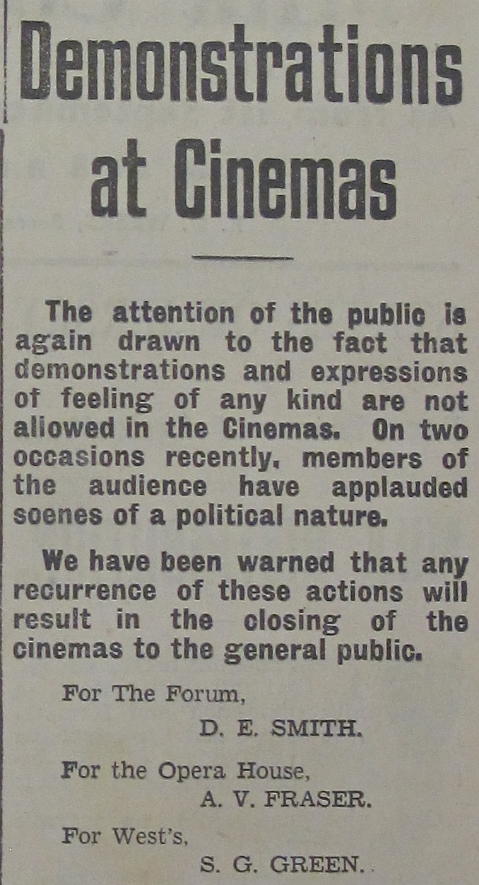 1941: Occupation of Jersey This image (or other media file) is in the public domain because its copyright has expired. This applies to Australia, the European Union and those countries with a copyright term of life of the author plus 70 years. You must also include a United States public domain tag to indicate why this work is in the public domain in the United States. Note that a few countries have copyright terms longer than 70 years: Mexico has 100 years, Colombia has 80 years, and Guatemala and Samoa have 75 years, Russia has 74 years for some authors. This image may not be in the public domain in these countries, which moreover do not implement the rule of the shorter term. Côte d'Ivoire has a general copyright term of 99 years and Honduras has 75 years, but they do implement the rule of the shorter term. This file has been identified as being free of known restrictions under copyright law, including all related and neighboring rights. This work is in the public domain in the United States because it was first published outside the United States (and not published in the U.S. within 30 days) and it was first published before 1978 without complying with U.S. copyright formalities or after 1978 without copyright notice and it was in the public domain in its home country on the URAA date (January 1, 1996 for most countries). For background information, see the explanations on Non-U.S. copyrights. Note: This tag should not be used for sound recordings.